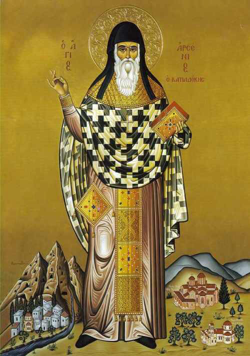 Icon of Venerable Arsenios the Cappadocian († 1924). Commemorated November 10.